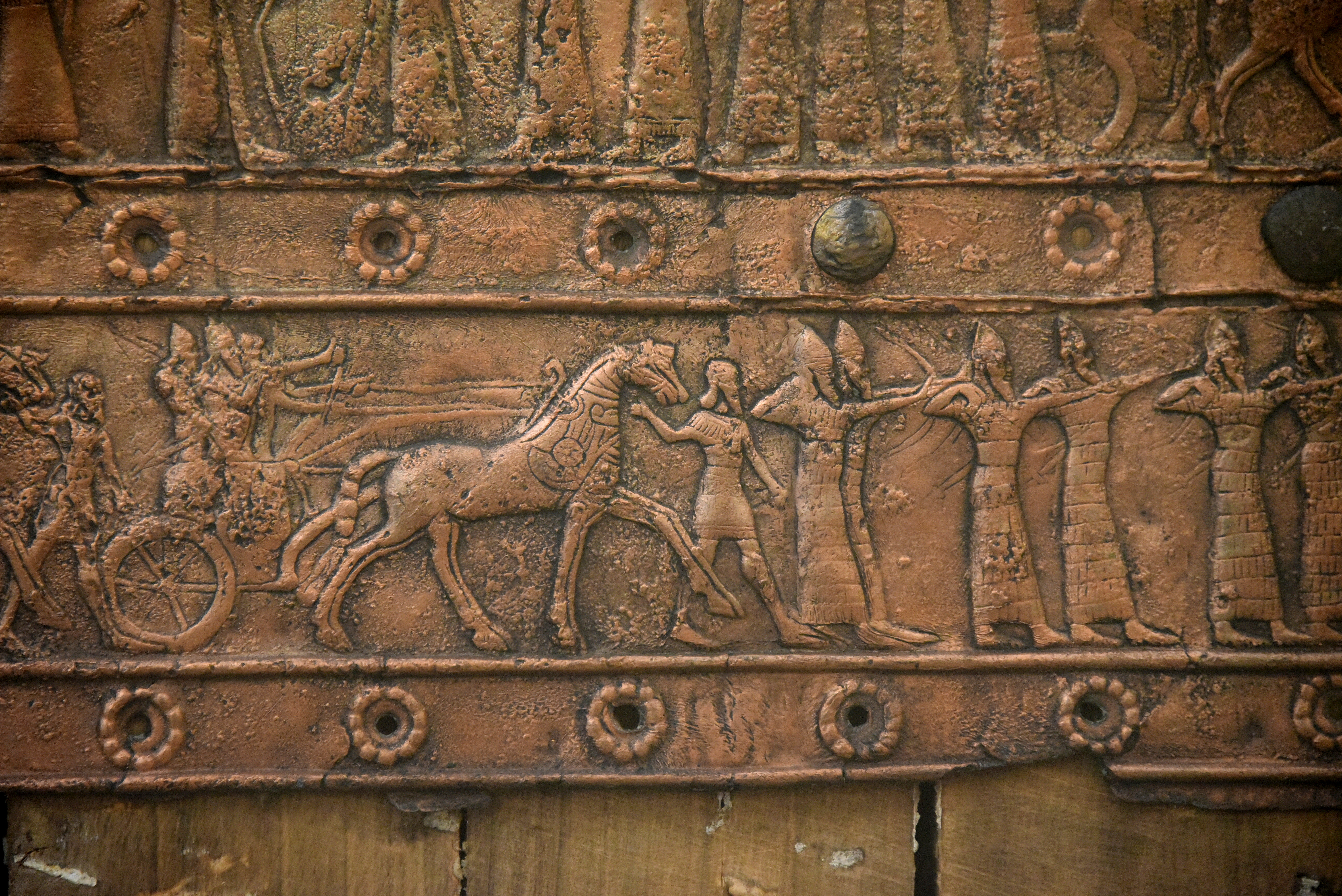 Detail of an embossed scene on bronze plate showing Shalmaneser III in a chariot and Assyrian archers. From a Balawat gate, Balawat (ancient Imgur-Enlil), Ninawa Governorate, Iraq. Neo-Assyrian Period, reign of Shalmaneser III, 859-824 BCE. Ancient Orient Museum, Istanbul.